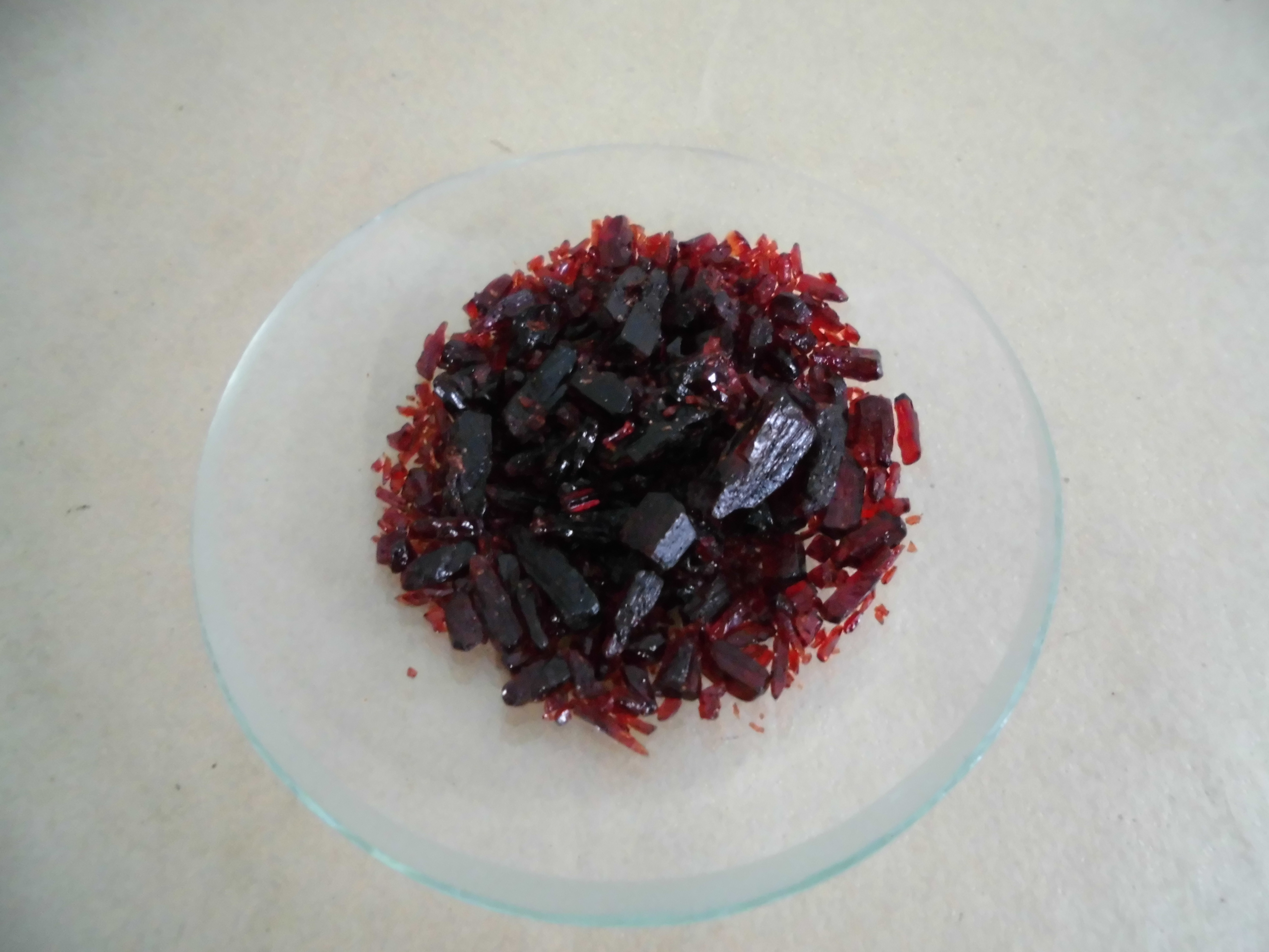 Sodium nitroprusside dihydrate.